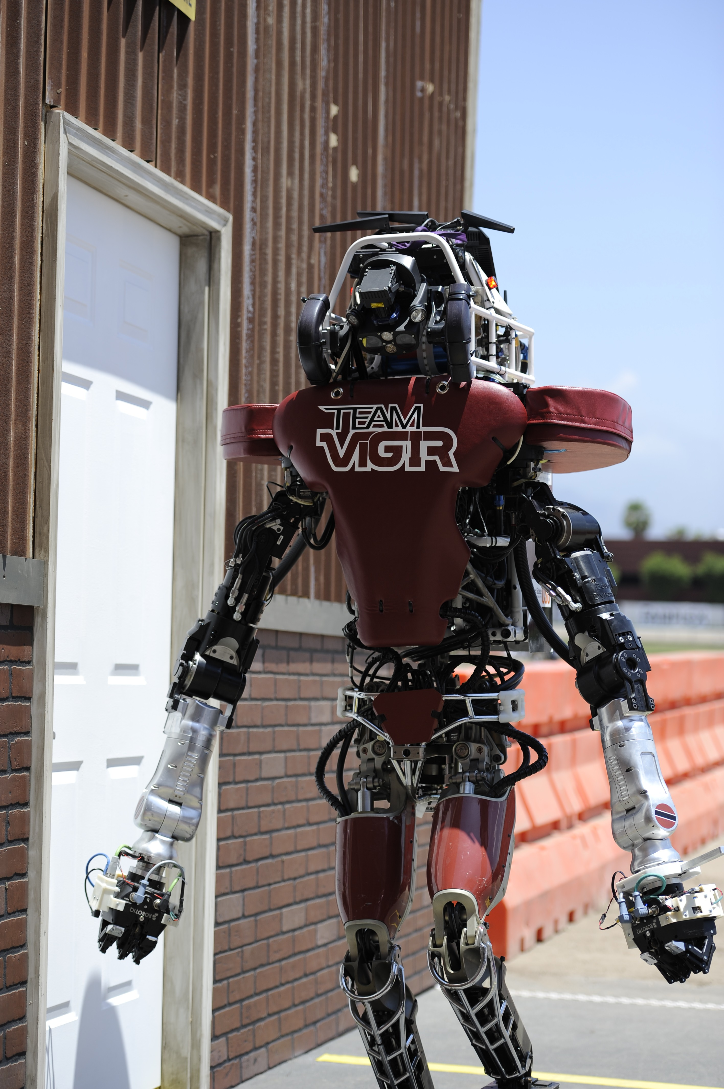 Roboter Florian. Team ViGIR (Virginia-Germany Interdisciplinary Robotics), comprising researchers from TORC Robotics, Technische Universität (TU) Darmstadt, Virginia Tech, Oregon State University, Cornell University, and Leibniz University Hanover is a collaborative research and development effort aimed at advancing the state-of-the-art in humanoid robot control in order to allow for effective human-robot teams.